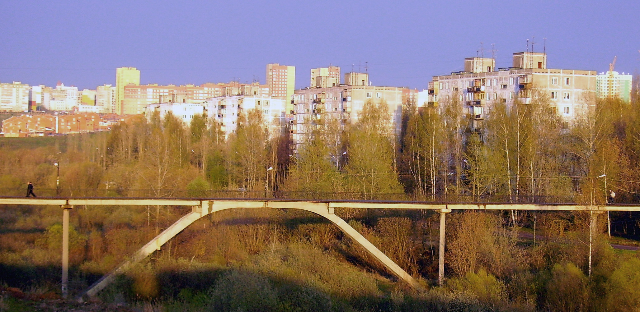 Kuznechikha-1 microraion in Nizhny Novgorod